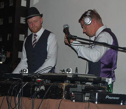 Switch and Diplo DJ'ing